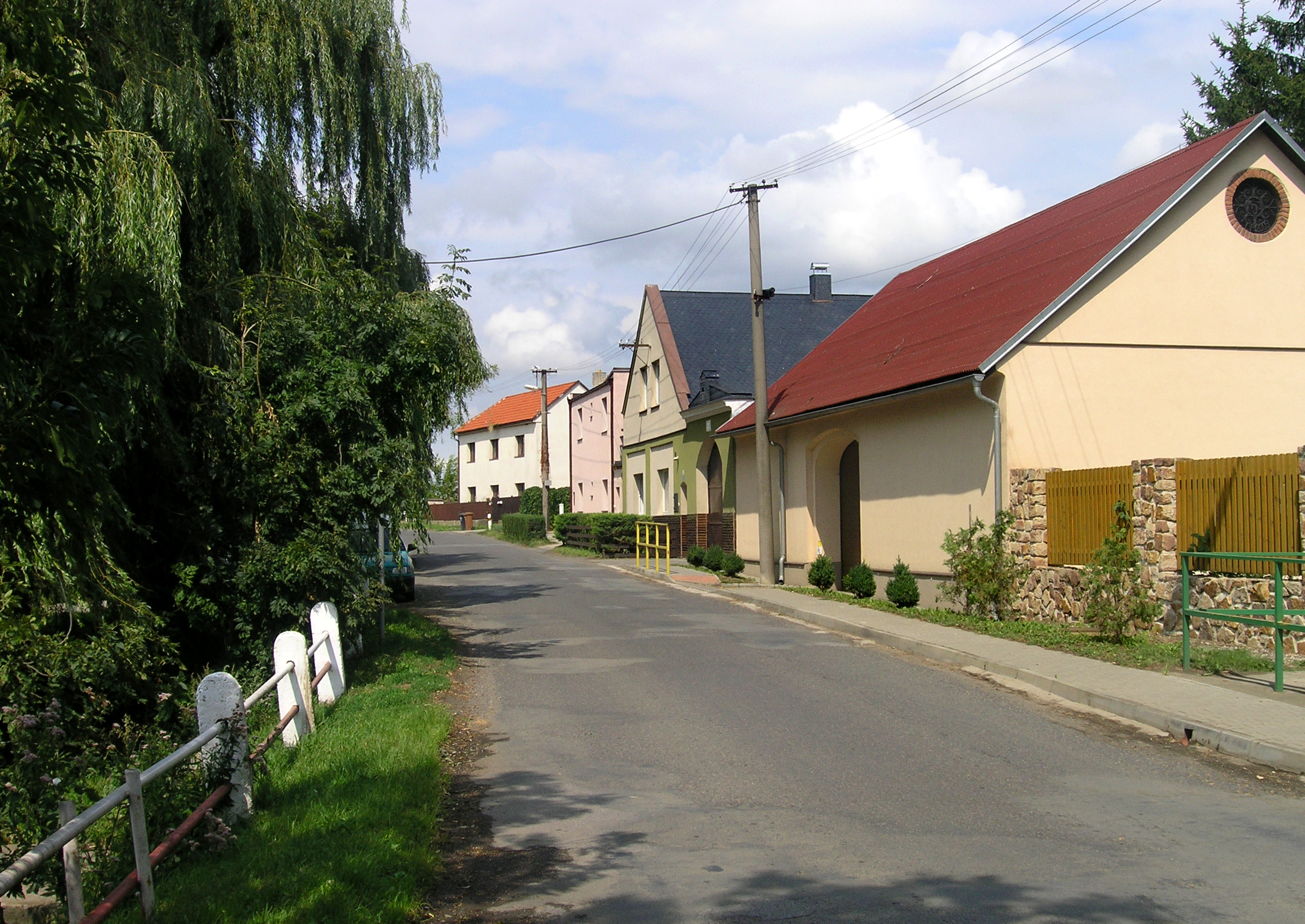 North part of Nová Ves, Czech Republic